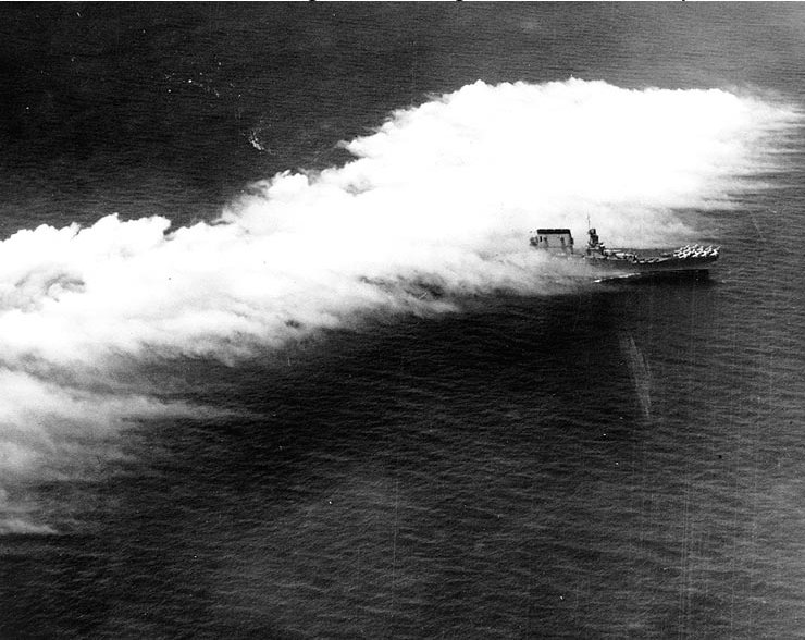 The U.S. Navy aircraft carrier USS Lexington (CV-2) steams through an aircraft-deployed smoke screen off Panama, 26 February 1929, shortly after that year's "Fleet Problem" exercises.